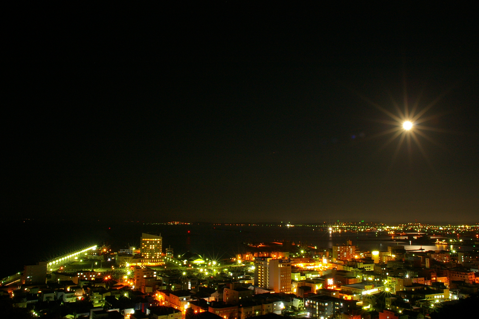 The night view of Wakkanai city.